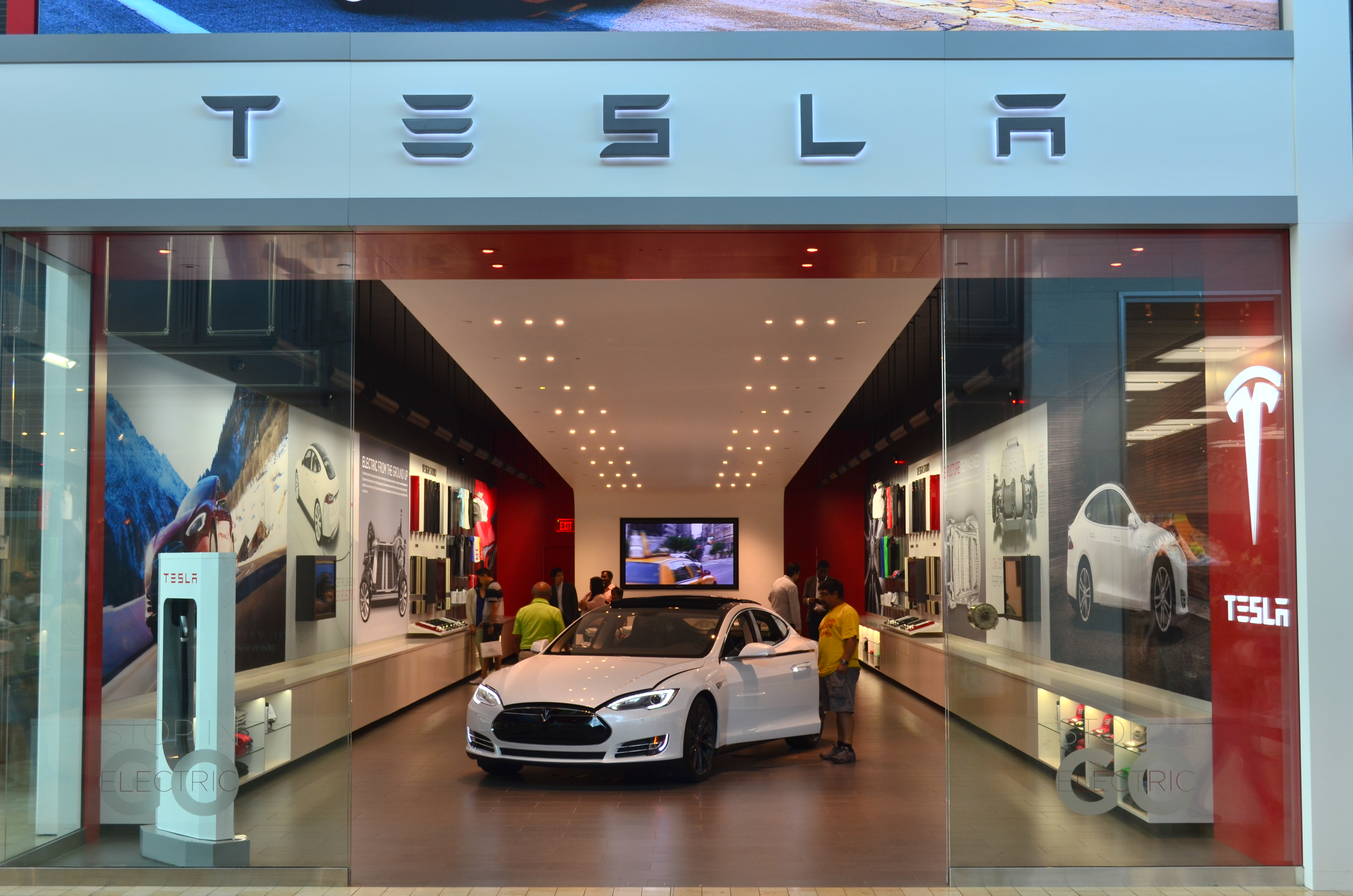 Tesla Motors at Yorkdale